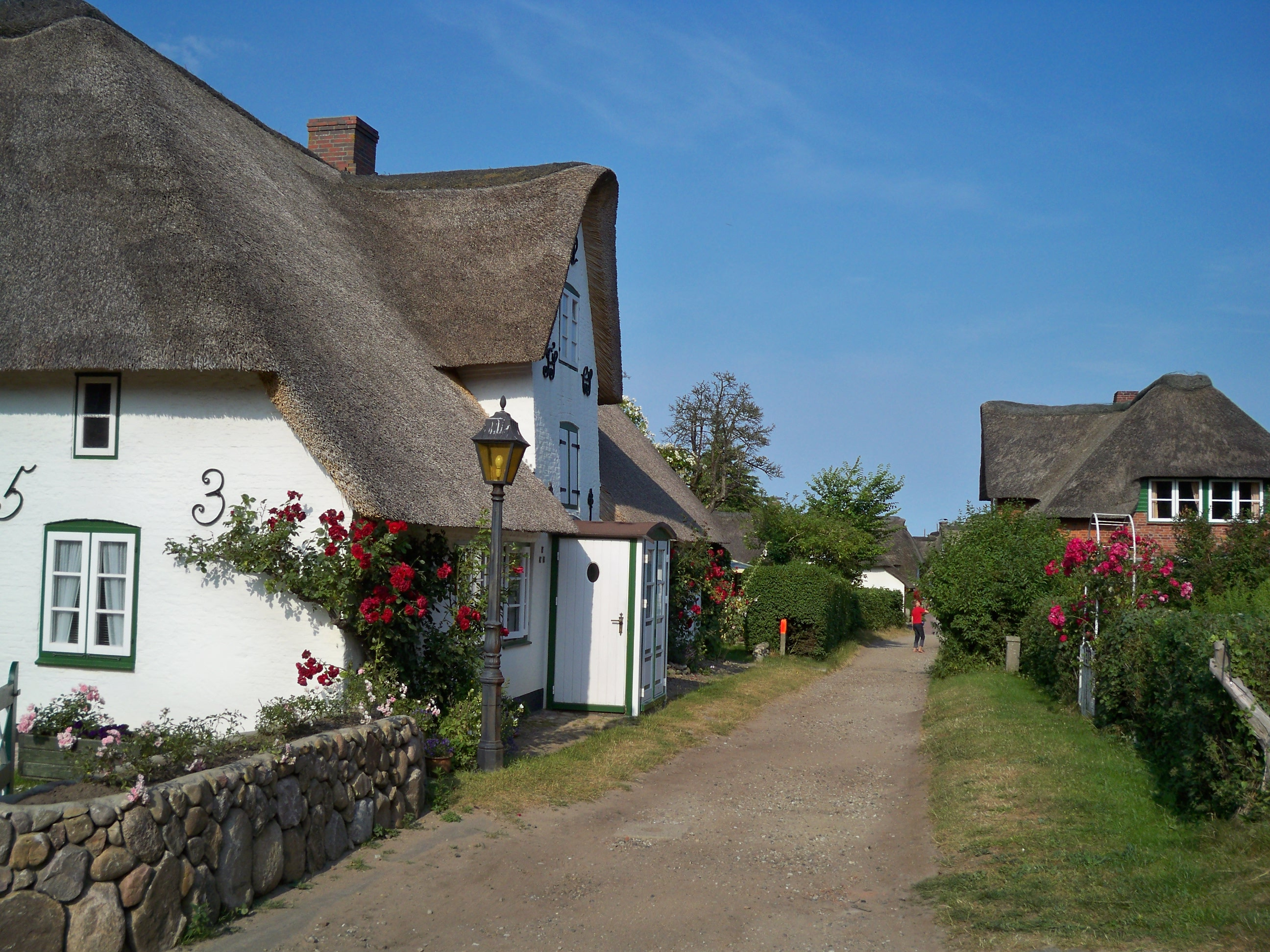 Nebel, Amrum, village street Ualjaat